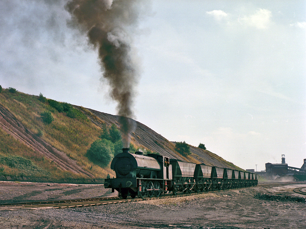 National Coal Board Hunslet Engine Company Limited 18" x 26" 0-6-0ST 'Austerity' class locomotive number 63.000.326 (works number 3776 of 1952) hauls ten loaded 'Merry-go-round' coal hopper wagons from Bickershaw Colliery at Leigh to the exchange sidings with British Railways. Thursday 18th August 1983